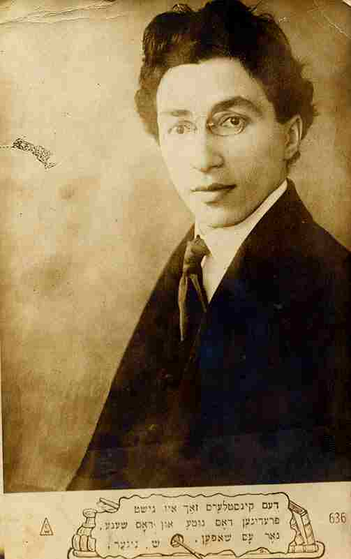 Yiddish writer Shmuel Niger (Chorny) in his youth